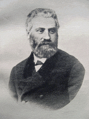 Portrait of the French ceramicist Alexandre Bigot.